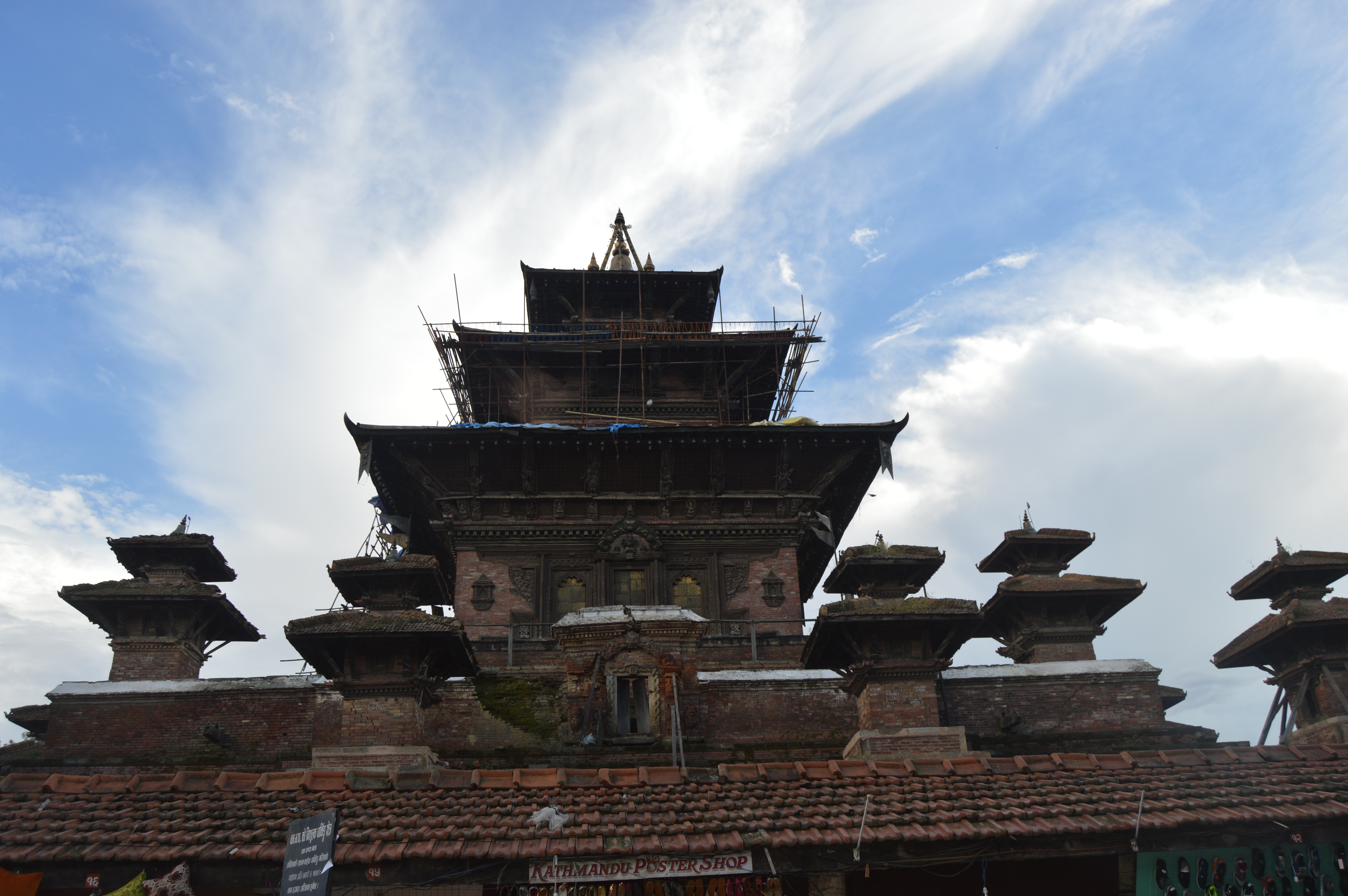 Taleju Temple